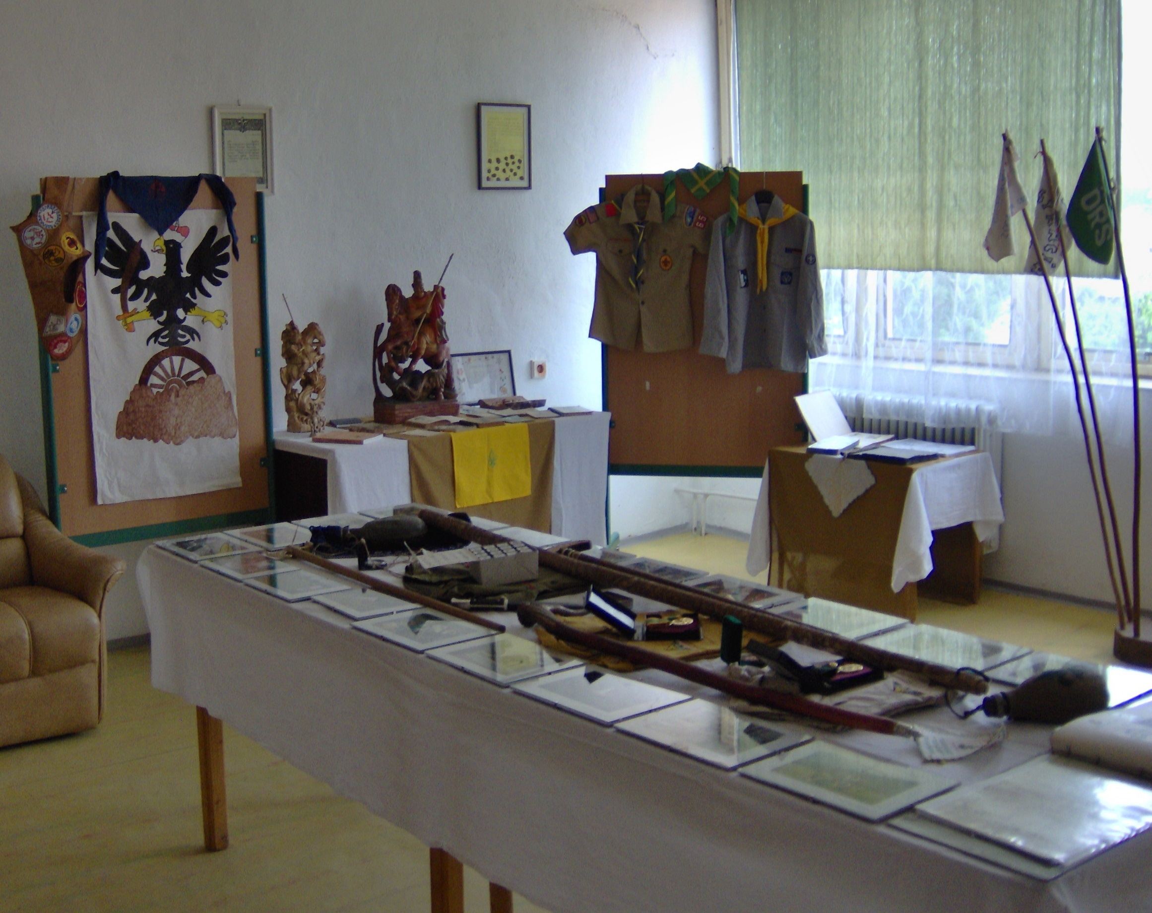 Exhibition of Scouting in Slovakia